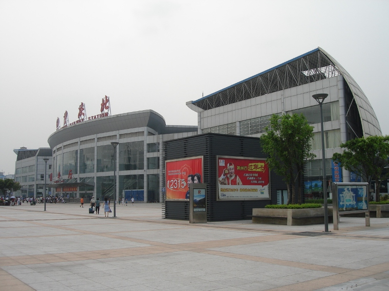 Chongqing North Railway Station